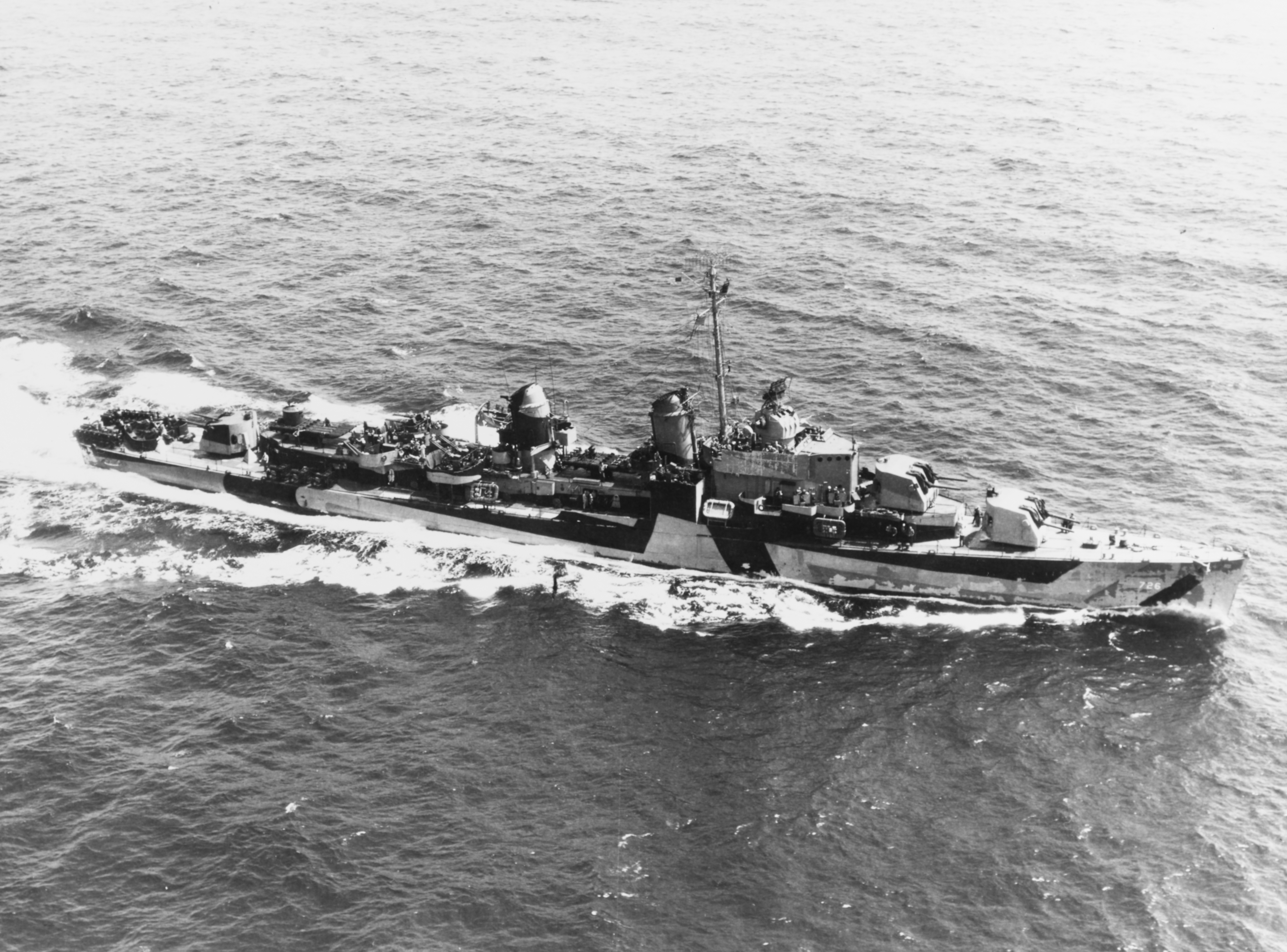 The U.S. Navy destroyer USS Meredith (DD-726) underway at sea on 16 April 1944. She is painted in Camouflage Measure 32, Design 3D.